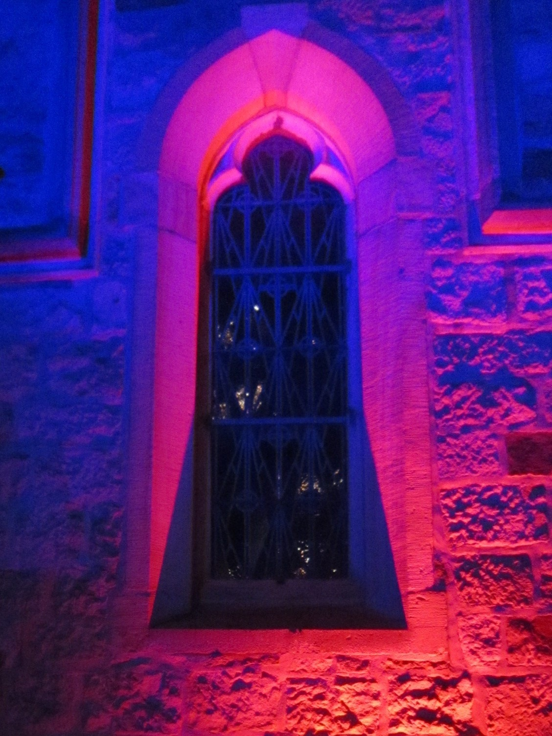 Window of St. Cyriakus Church in Salzbergen during the Festival of Lights 2013